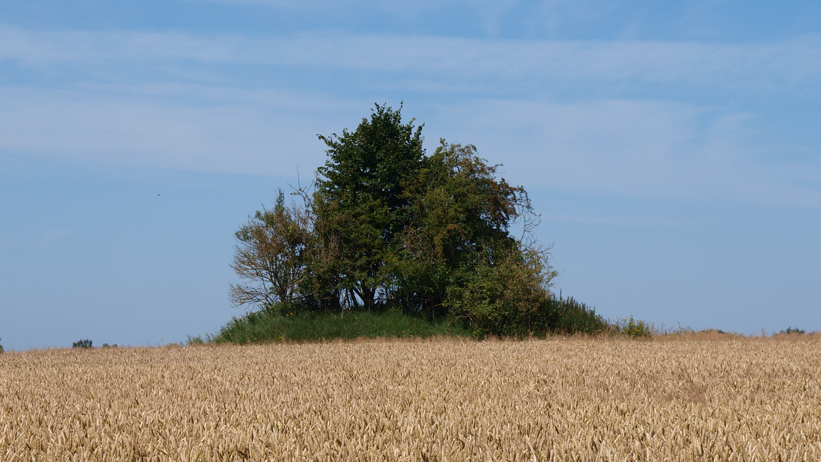 Bronze Age tumulus Backelsberg or Baaksberg near village Daensen near Buxtehude, Landkreis Stade, Lower Saxony, Germany. The folding chair of Daensen has been found in this tumulus.